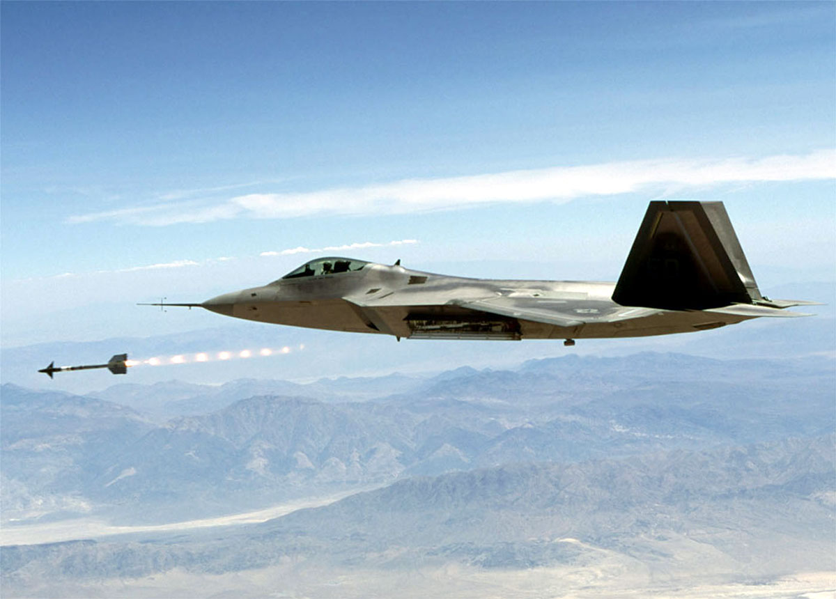 An AIM-9 Sidewinder missile successfully launches from an F-22 Raptor during a launch test Tuesday, July 25. The major milestone test evaluated the next-generation fighter's ability to fire an air-to-air missile from an internal weapons bay. Its primary air-to-air role, the F-22 will carry six AIM-120C and two AIM-9 missiles. For its air-to-ground role, the F-22 can internally carry two 1,000 pound-class Joint Direct Attack Munitions (JDAM), two AIM-120C, and two AIM-9 missiles.